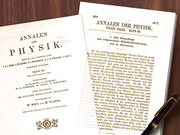 fotos de los trbajos de la relatividad